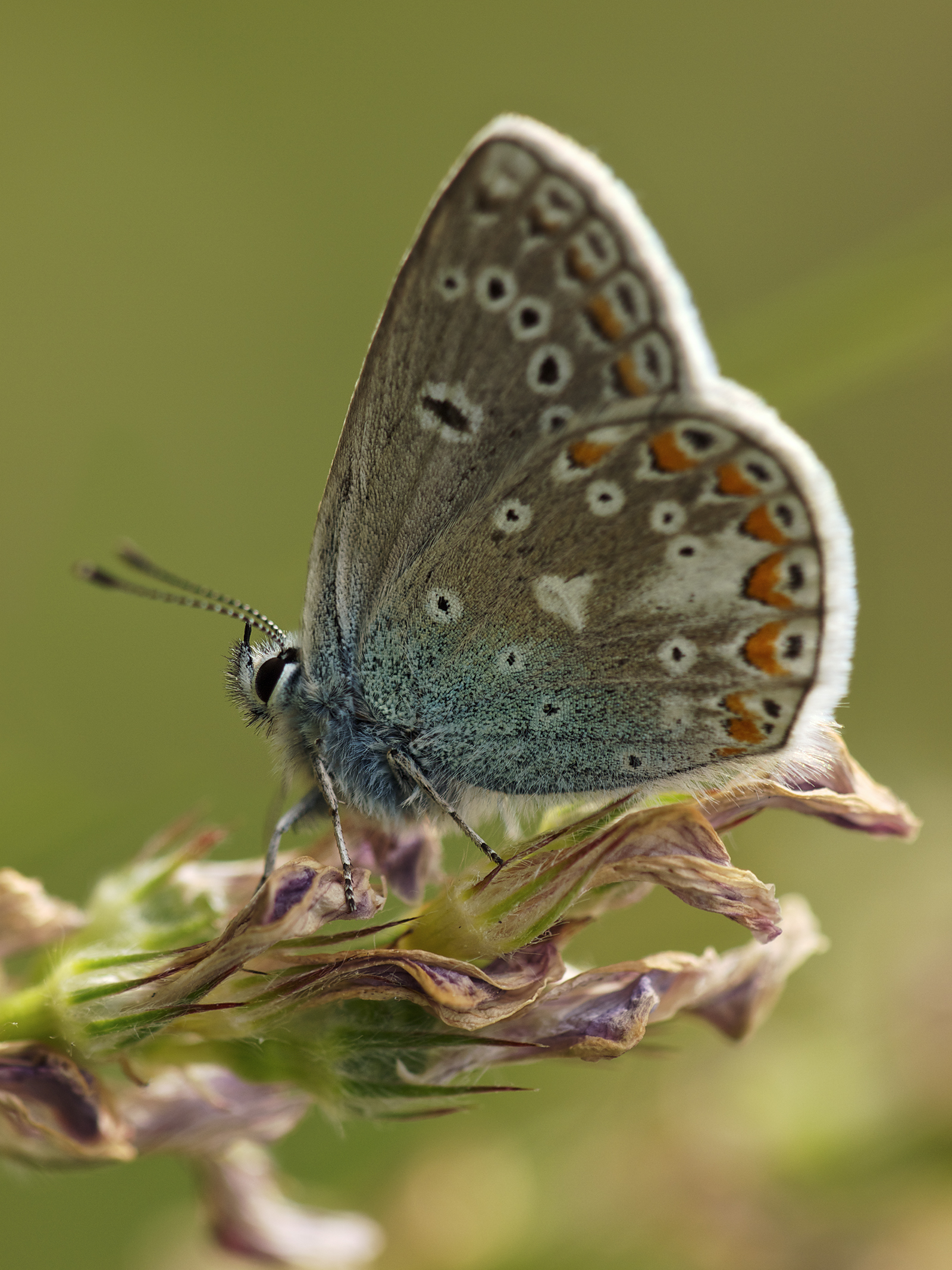 Chapman's Blue (Polyommatus thersites), Jena, Germany